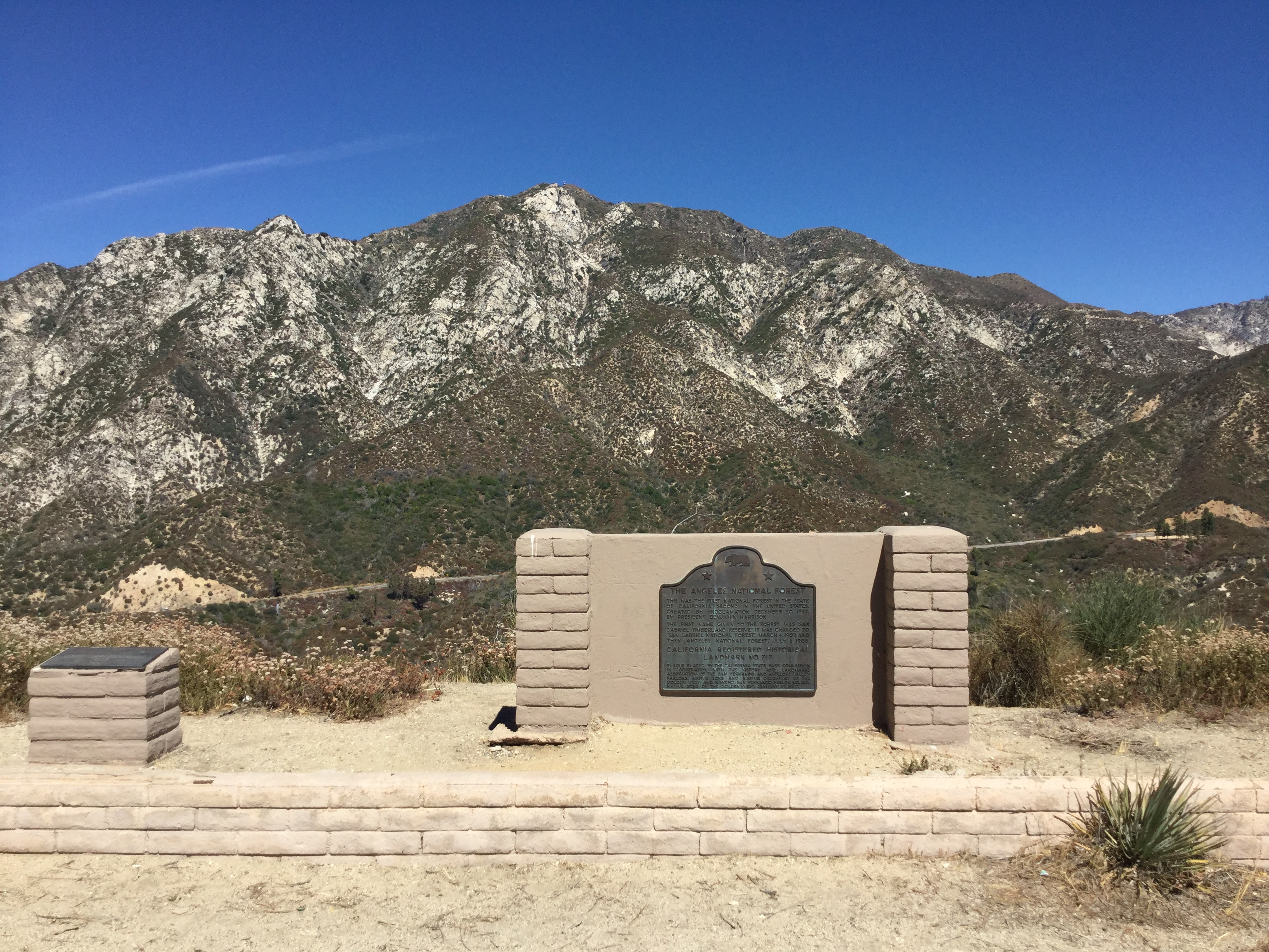 At George’s Gap trailhead on Angeles Crest Highway.